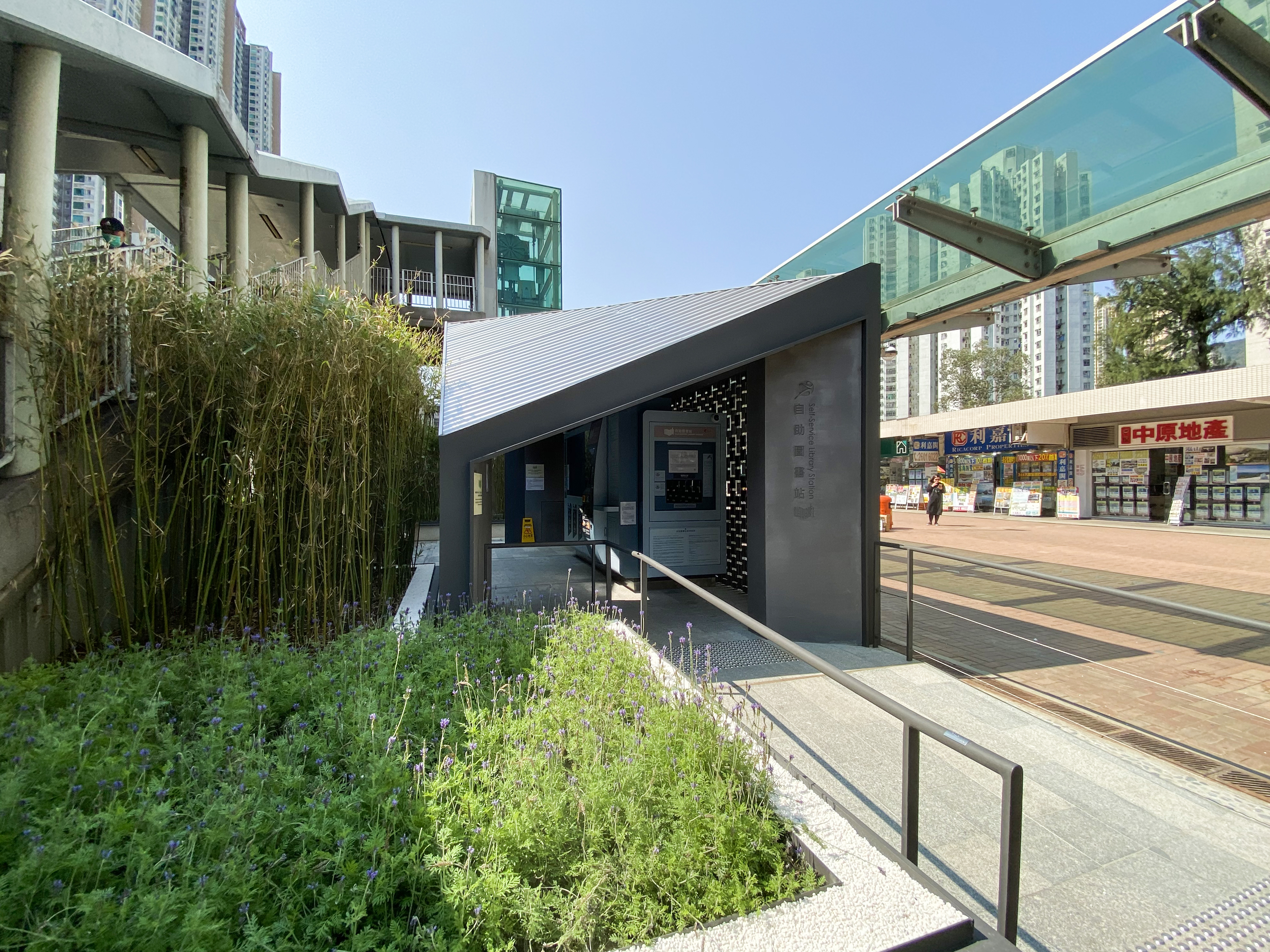 Tai Wai Self Service Library Station